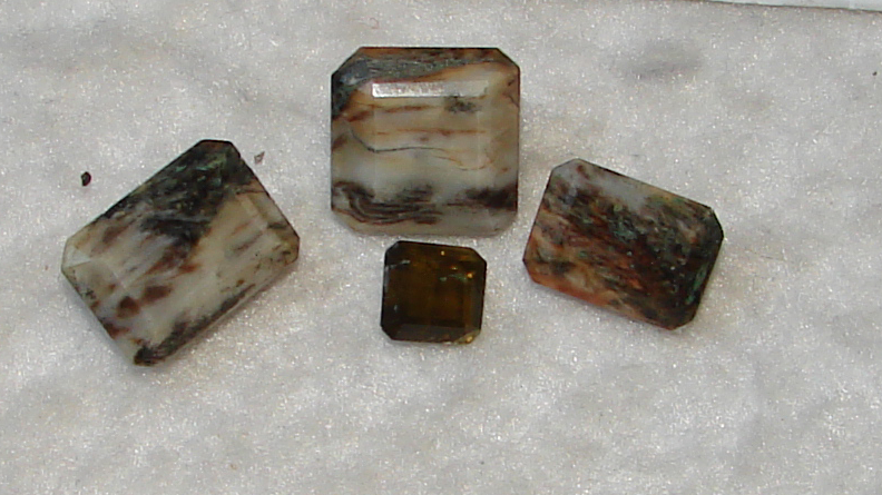 Sillimanite cut, from Minas Gerais, Brazil. Gem cutting by Afonso Marques